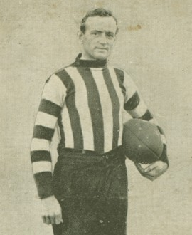 Photograph of Marshall Herbert in 1910